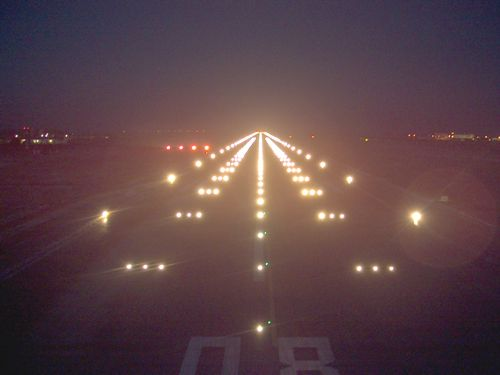 A runway at Bucharest Henri Coanda International Airport